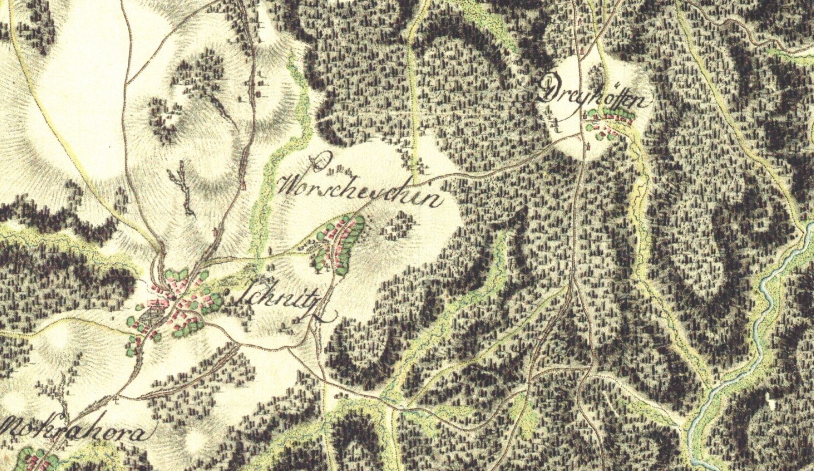 Ořešín, Brno, Czech Republic - First Military Mapping Survey of Austrian Empire